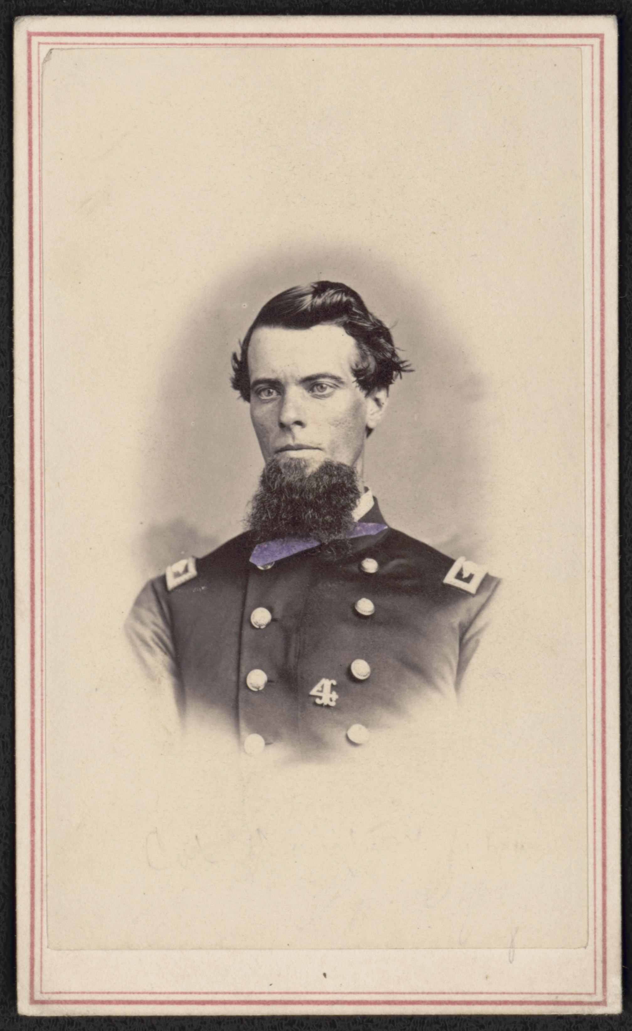 Title: Colonel James H. Dayton of Co. K, 4th West Virginia Infantry Regiment in uniform / Partridge's Gallery, Wheeling, Va Abstract/medium: 1 photograph : albumen print on card mount ; mount 11 x 6 cm (carte de visite format)